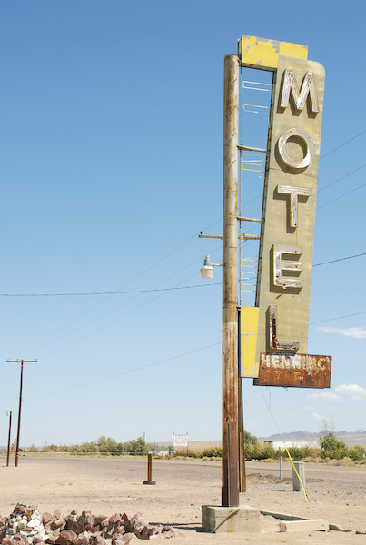 Motel sign at Bagdad Café, Newberry Springs, California.